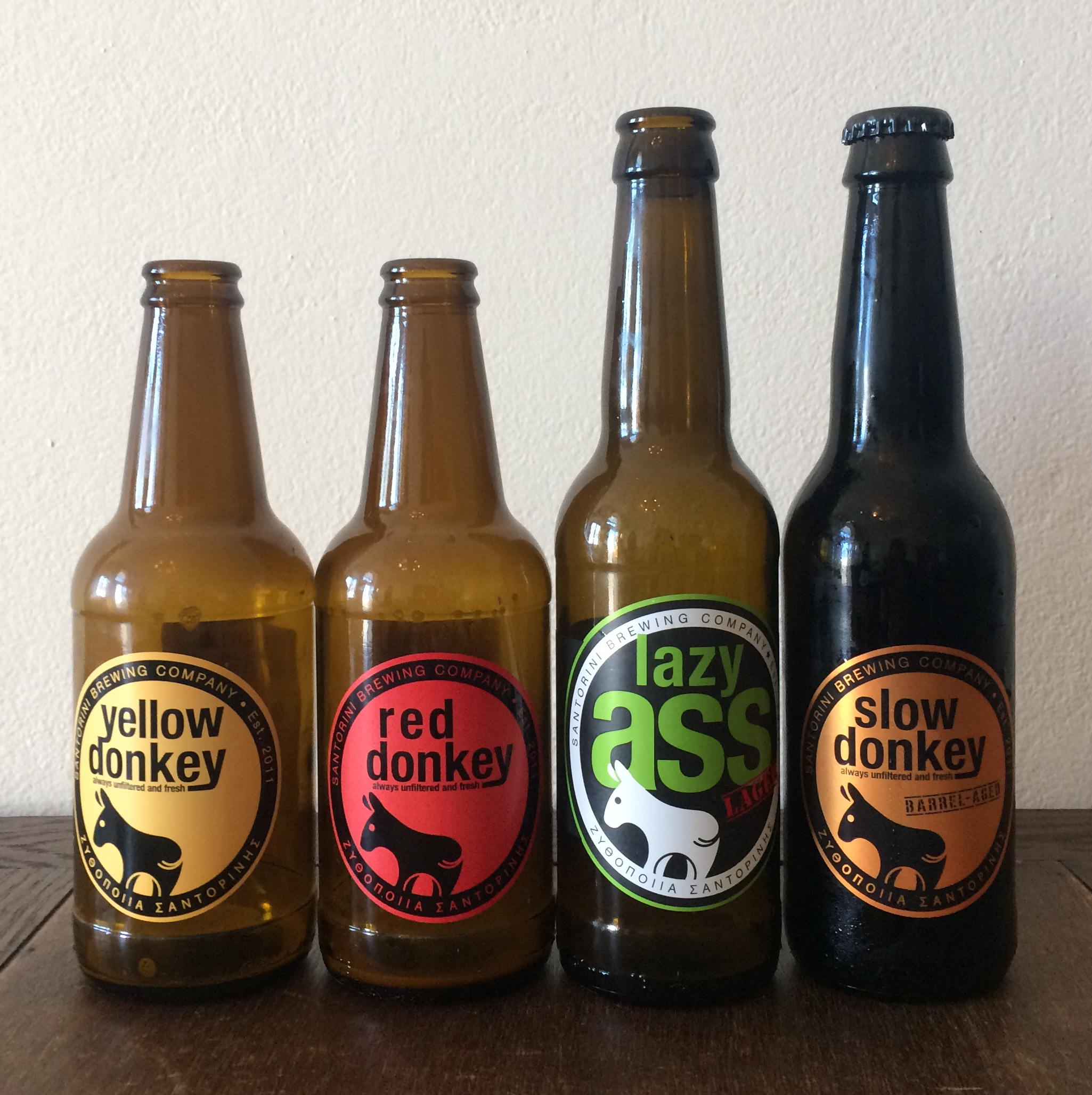 Four (empty) beer bottles representing beers from the Santorini Brewing Company